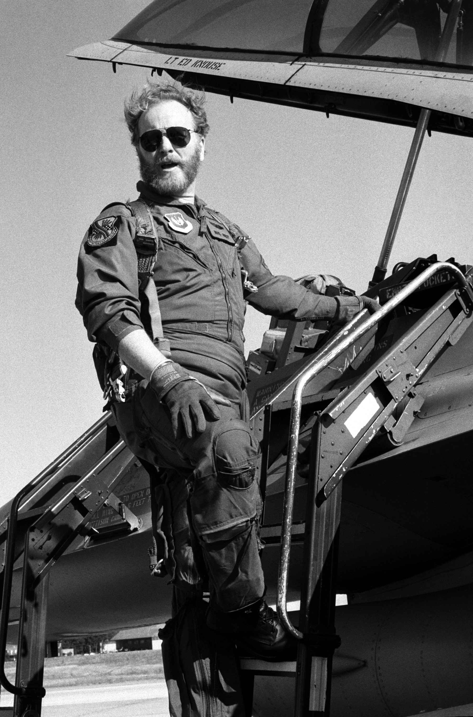 Representative Robert K. Dornan, Republican-California, stands on the ladder of an F-16 Fighting Falcon aircraft during his visit to the base. Location: Torrejon Air Base